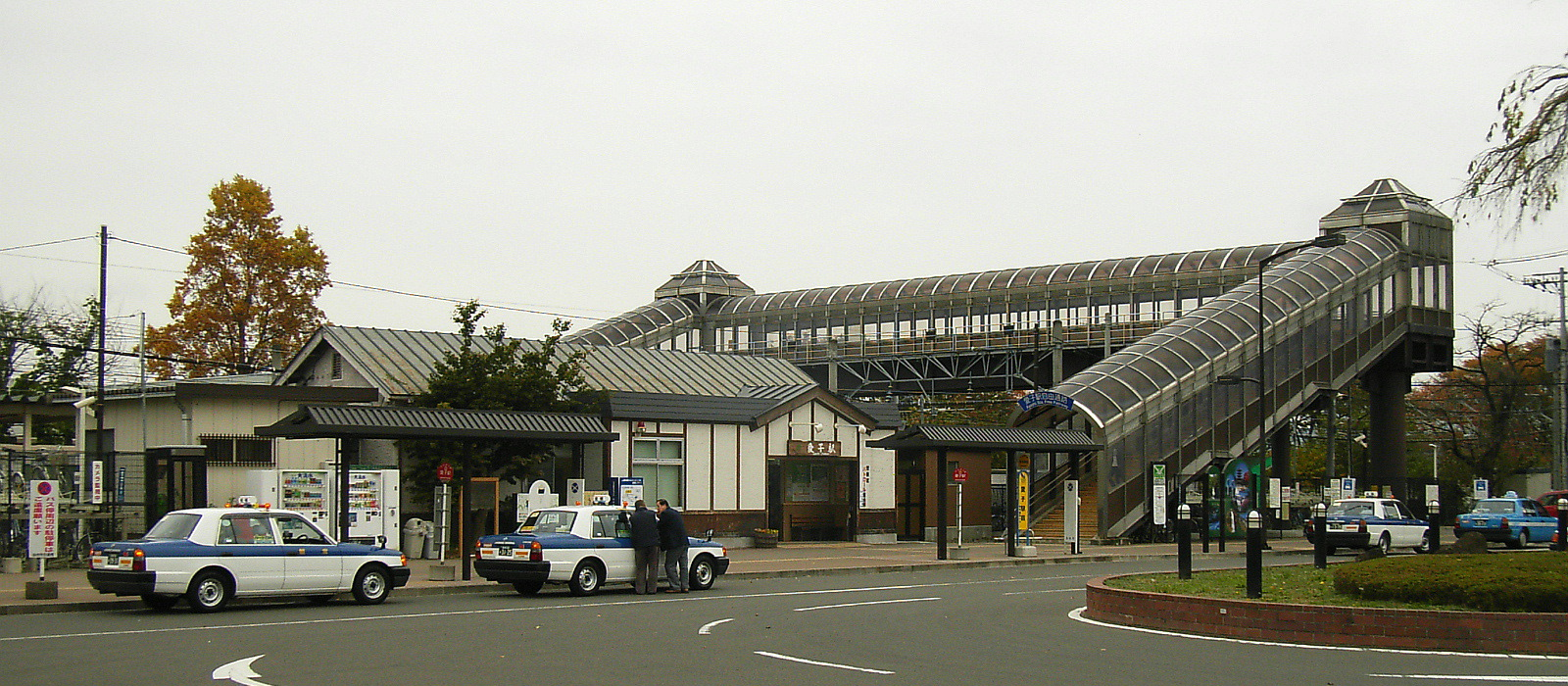 Ayashi Station on the Senzan Line in Ayashichūō 1 chōme, Aoba ward, Sendai, Miyagi prefecture, Japan. From the southwest of the station, toward northeast.